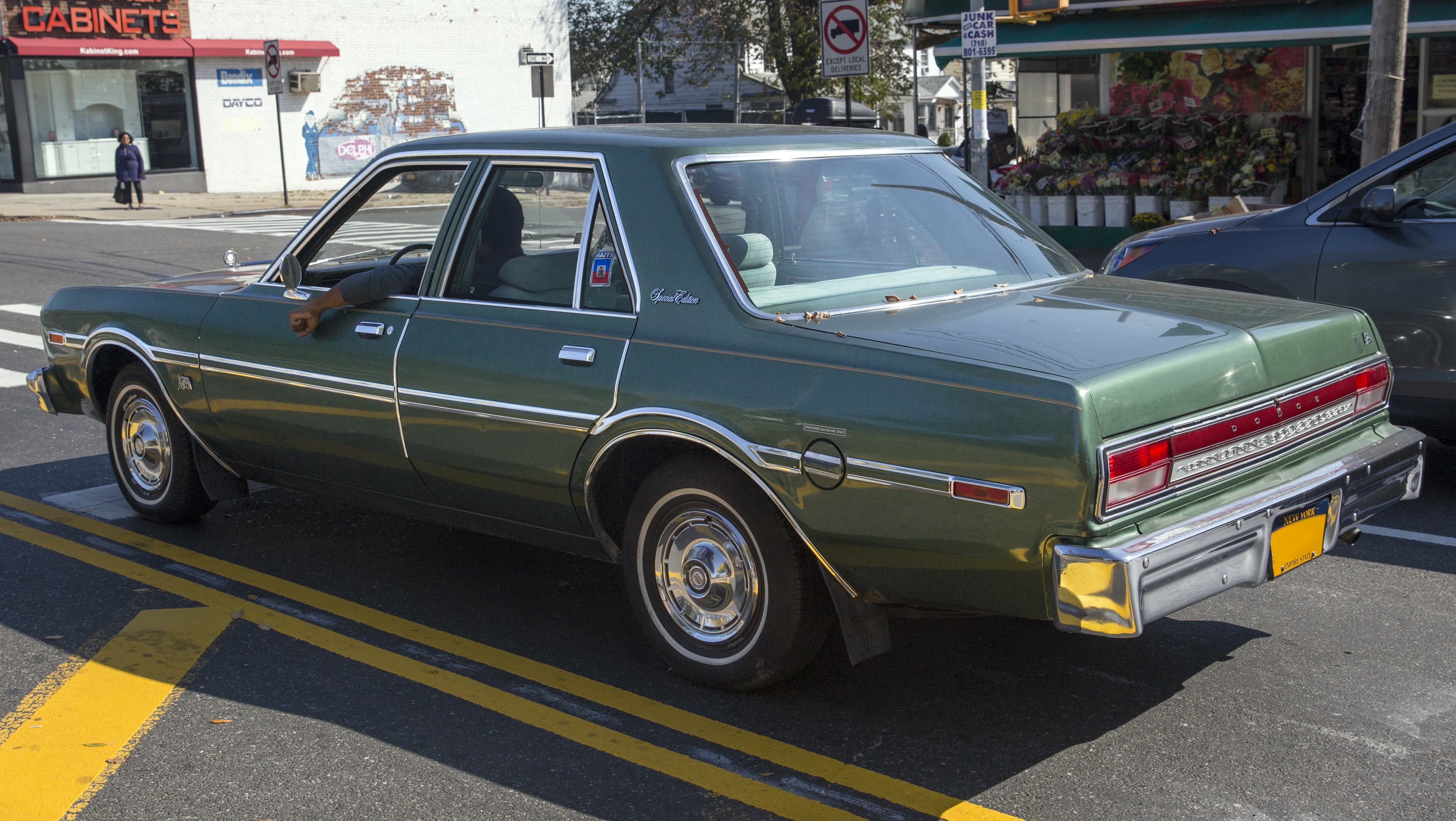 A 1977 Dodge Aspen Special Edition four-door sedan in Queens Village, Queens, NY. Six-cylinder with a three-speed auto, of course.